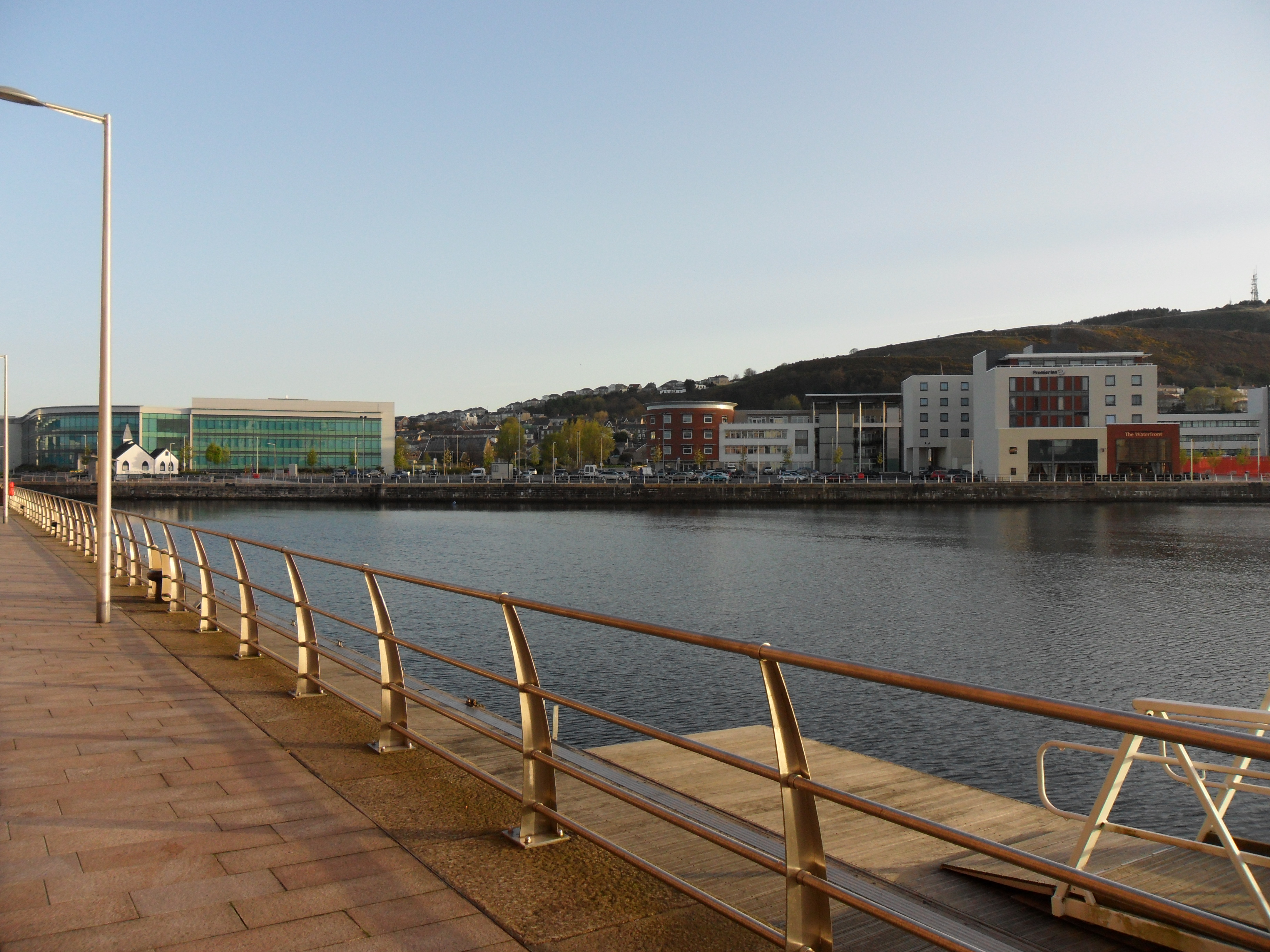 Prince of Wales Dock, Swansea, SA1 development